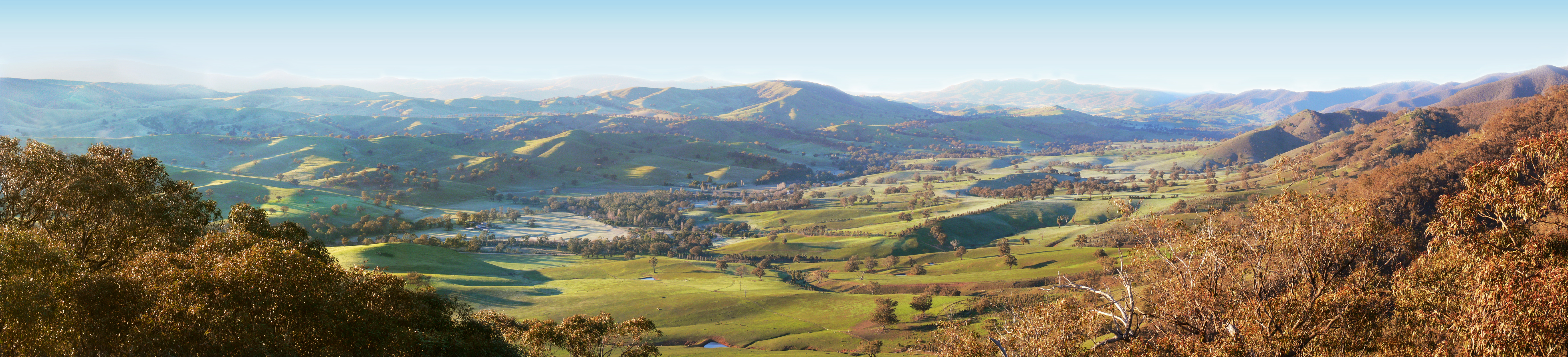 A panorama of the Swifts Creek, Victoria region, taken in July 2007, Australia